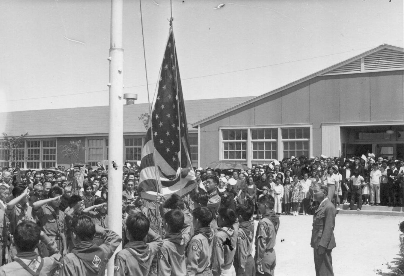 Amache Boy Scouts raising flag to half-mast at Memorial Service for first six Nisei soldiers from this Center killed in action in Italy. The service was held August 5, 1944, and attended by 1500 Amache residents. Amache, Colorado. 8/5/44